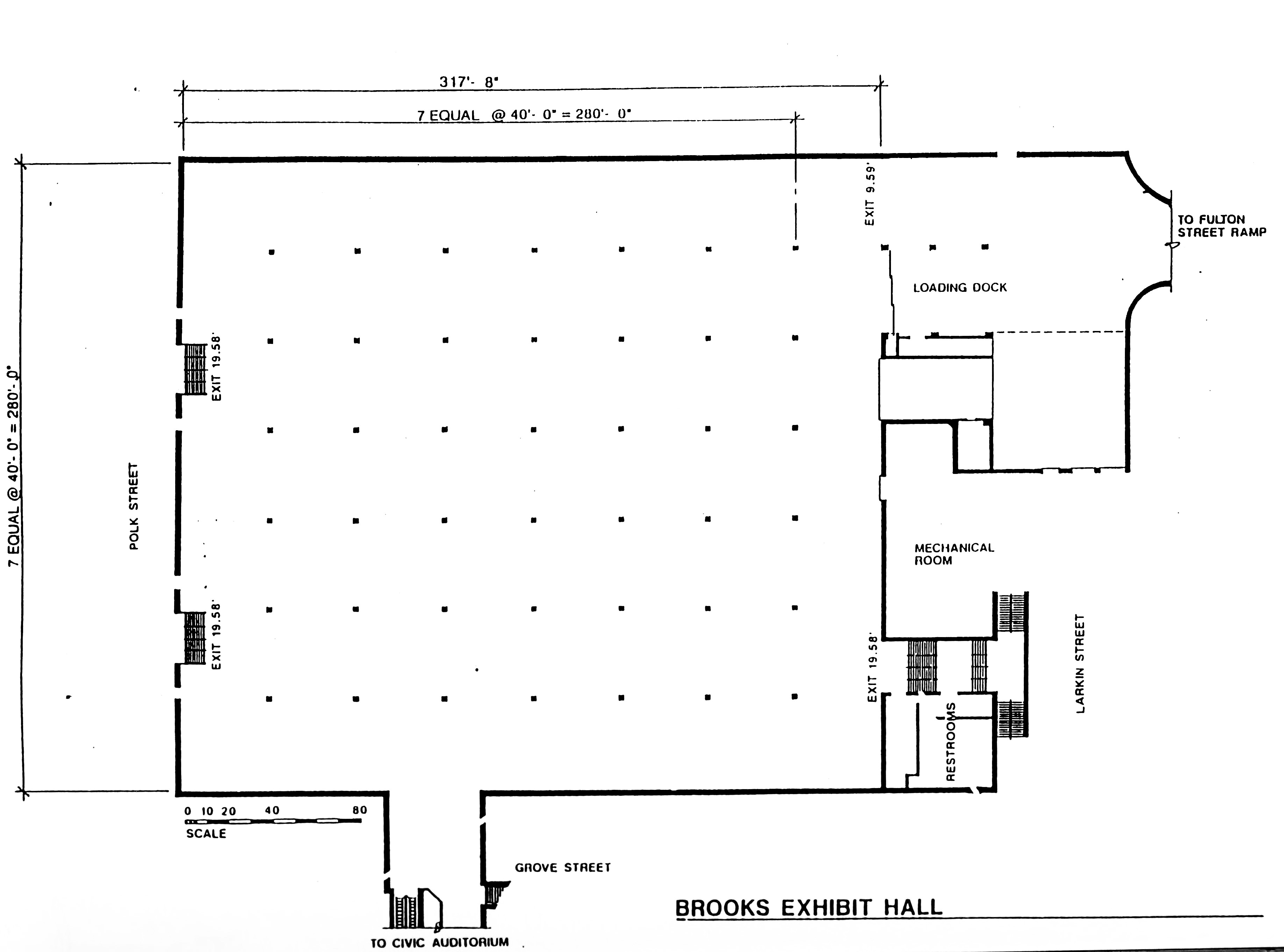 Site plan of Brooks Hall (originally completed in 1958) in Civic Center, San Francisco. Published in a year 2000 report.